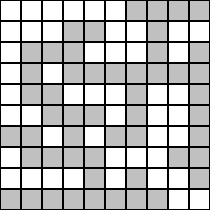 Solution to the LITS sample puzzle.